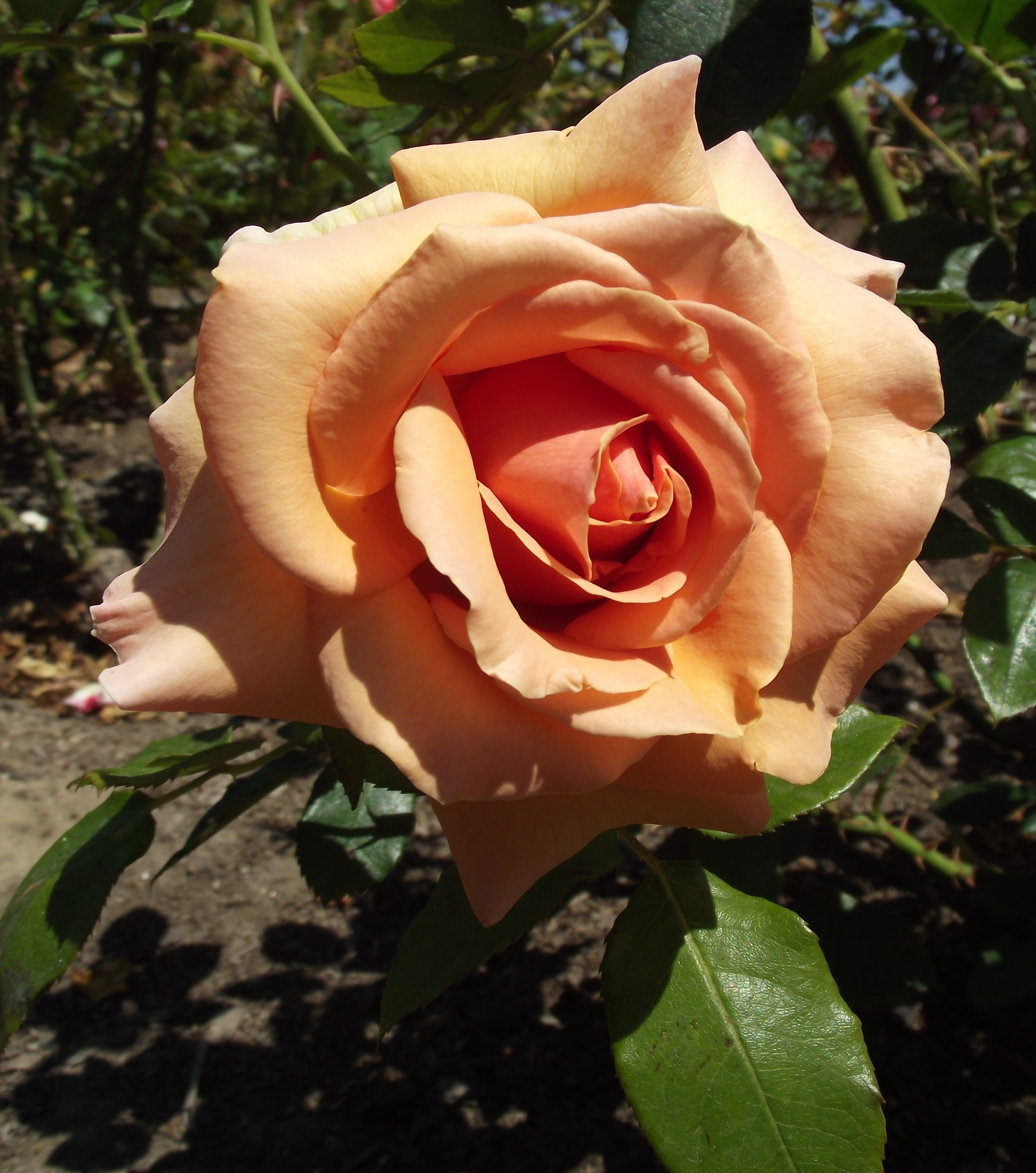 Rosa 'Over the Moon' in the Inez Grant Parker Memorial Rose Garden, Balboa Park, San Diego, California, USA.